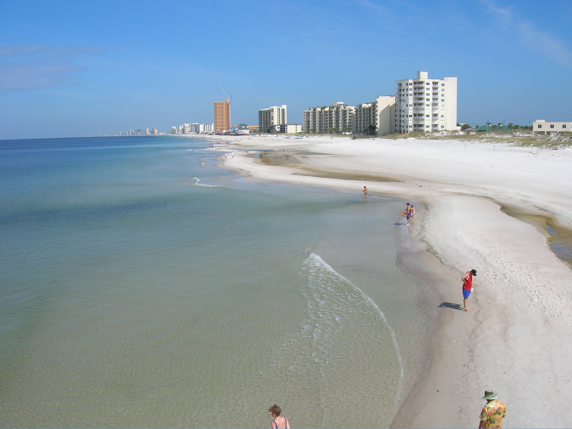 This is a clear west facing view of Panama City Beach in the state of Florida, USA. It was taken from the viewpoint of St. Andrews pier.